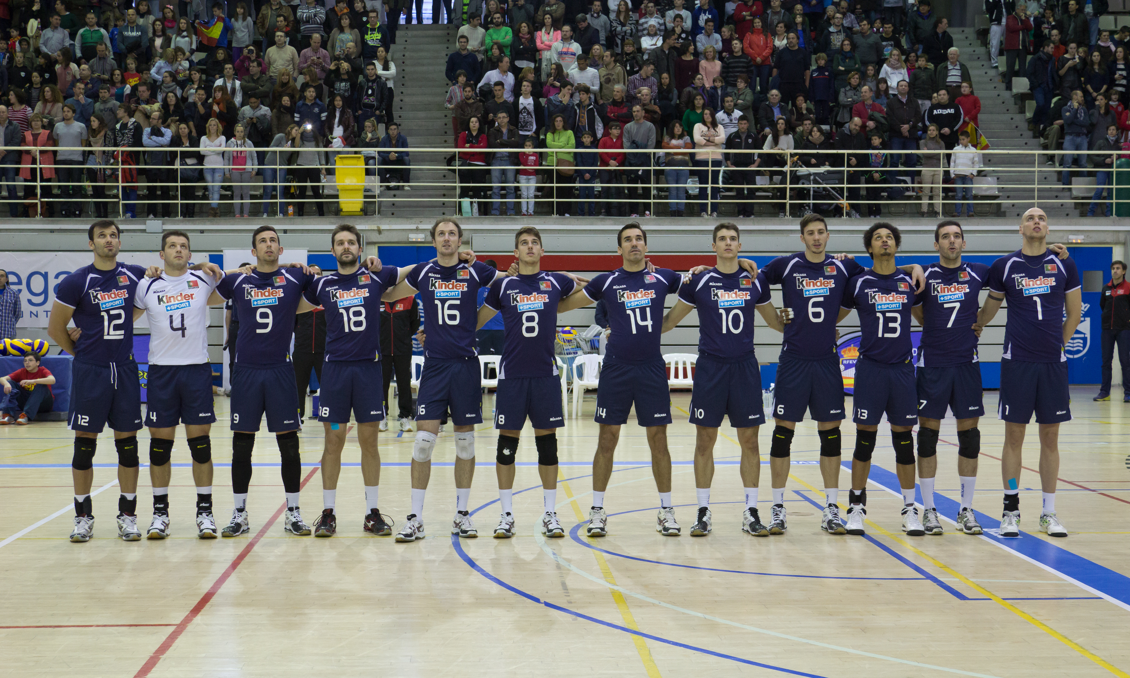 Portugal men's national volleyball team in Leganés, Spain.